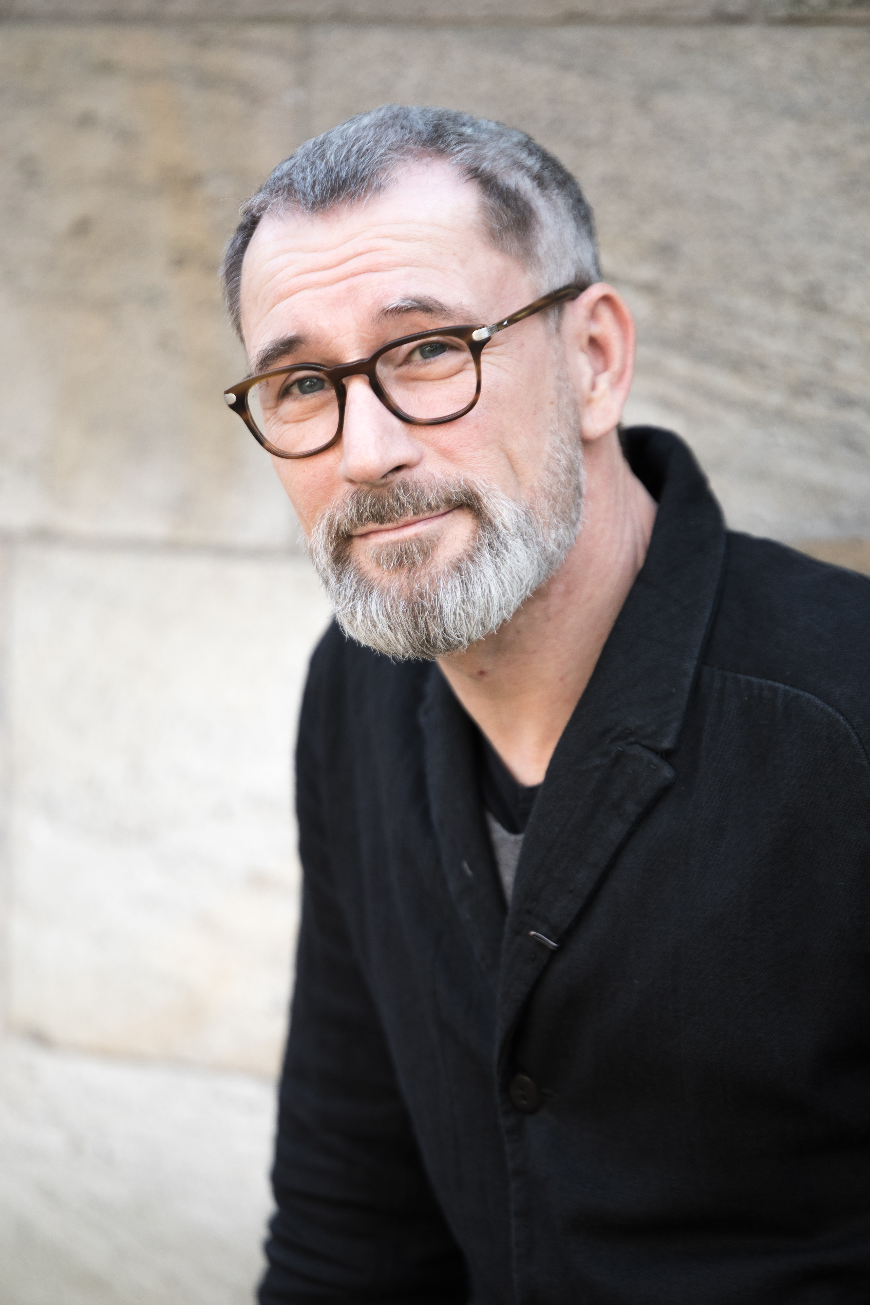 Heikko Deutschmann at the reception of the state government of Hesse, Berlinale 2018